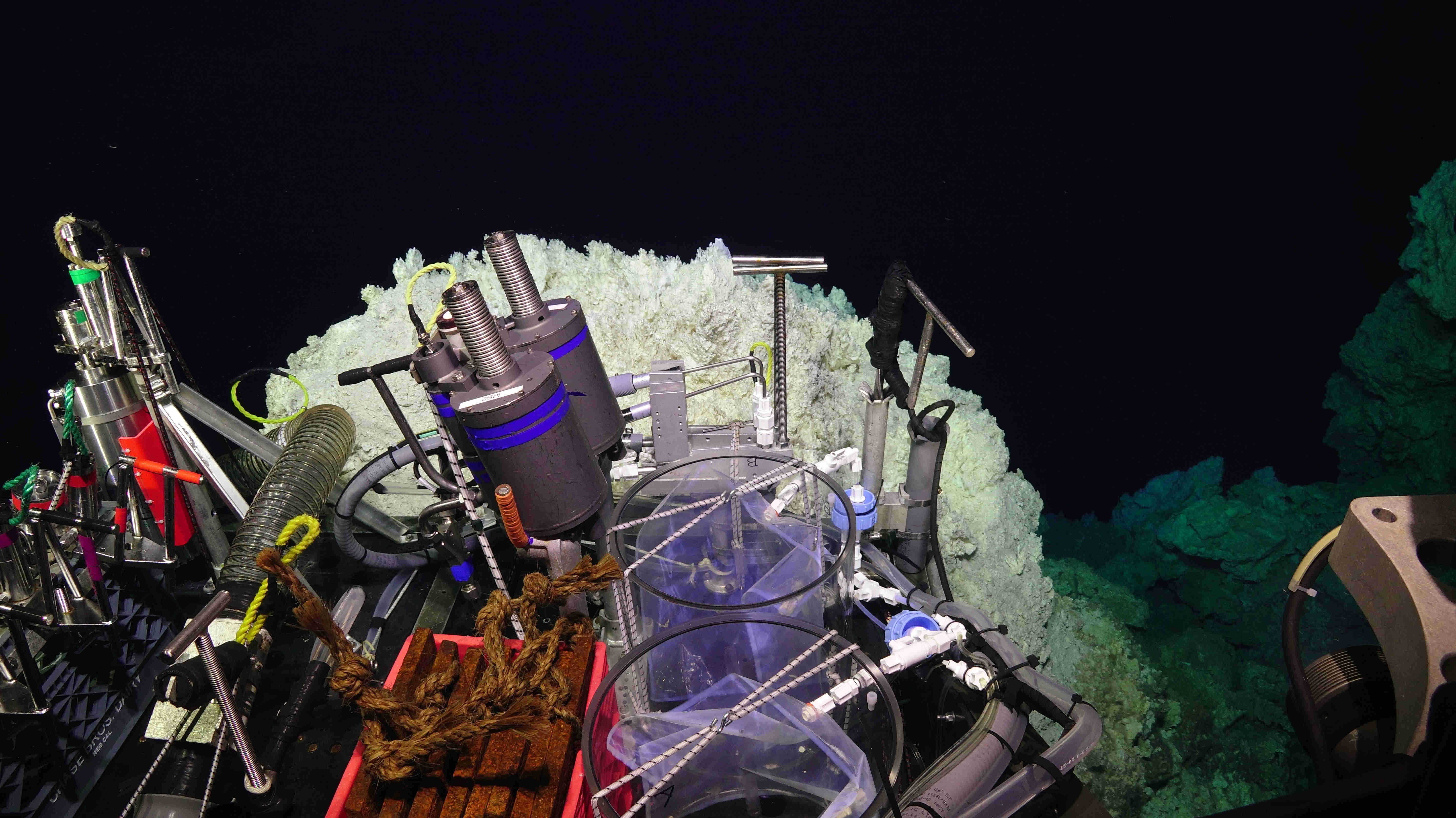 From left to right: Gas-tight samplers for getting dissolved gas data, large diameter "slurp" tube for collecting loose sediment, large-volume gas-tight samplers, (below) iron dive weights for ballast, large volume water containers, a high-temperature probe. All of the sample materials have T-shaped grips for JASON to manipulate them.